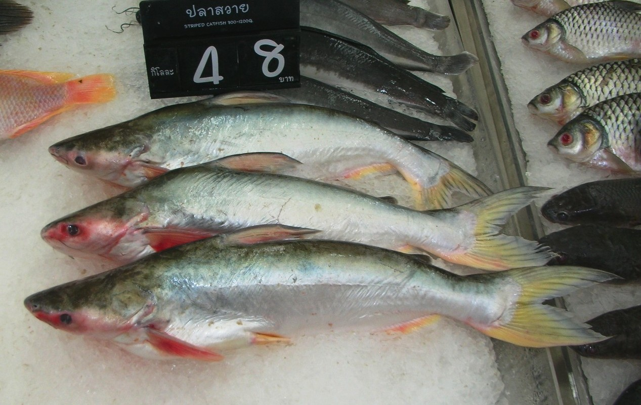 Pangasius pangasius (ปลาสวาย Pla sawai) from a fish farm at a market in Ban Pong, Thailand